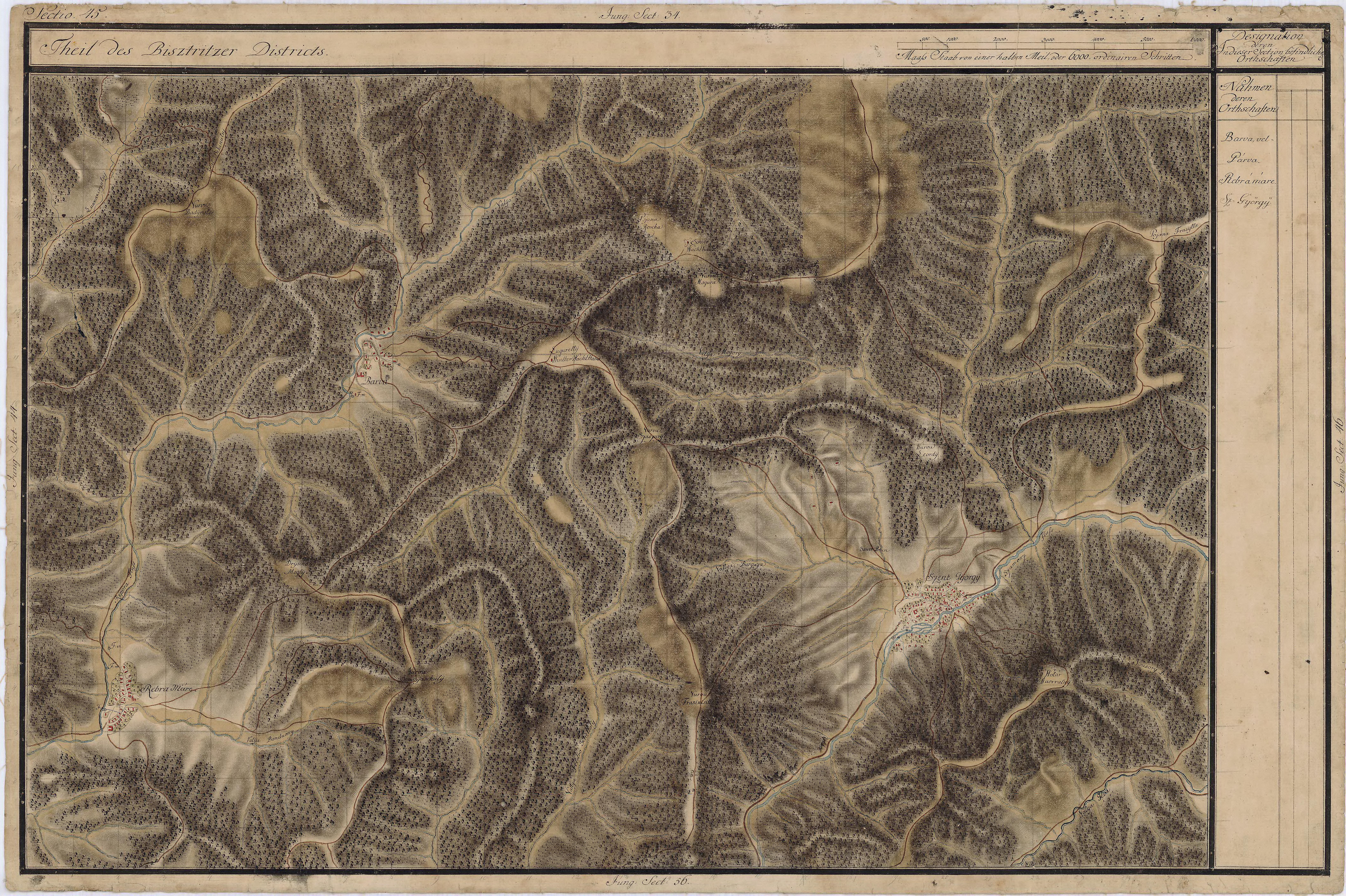 Grand Duchy of Transylvania, 1769-1773. Josephinische Landaufnahme pg.045